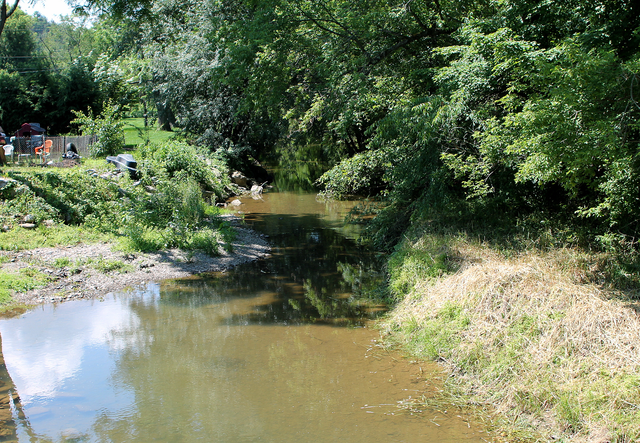 Green Creek, a tributary of Fishing Creek, near Rohrsburg, Pennsylvania. This view looks downstream.